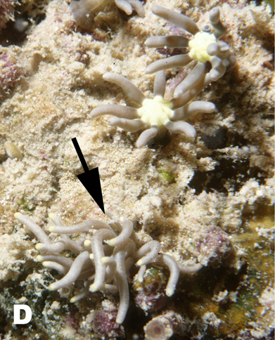 Photo of Phyllodesmium briareum (Bergh, 1896) (arrow, Dexiarchia, Aeolidoidea) from the Indo Pacific nad soft coral Briareum violaceum. Phyllodesmium briareum (one specimen on bottom of the image) looks vary similar to soft coral Briareum violaceum (at the top of the image).